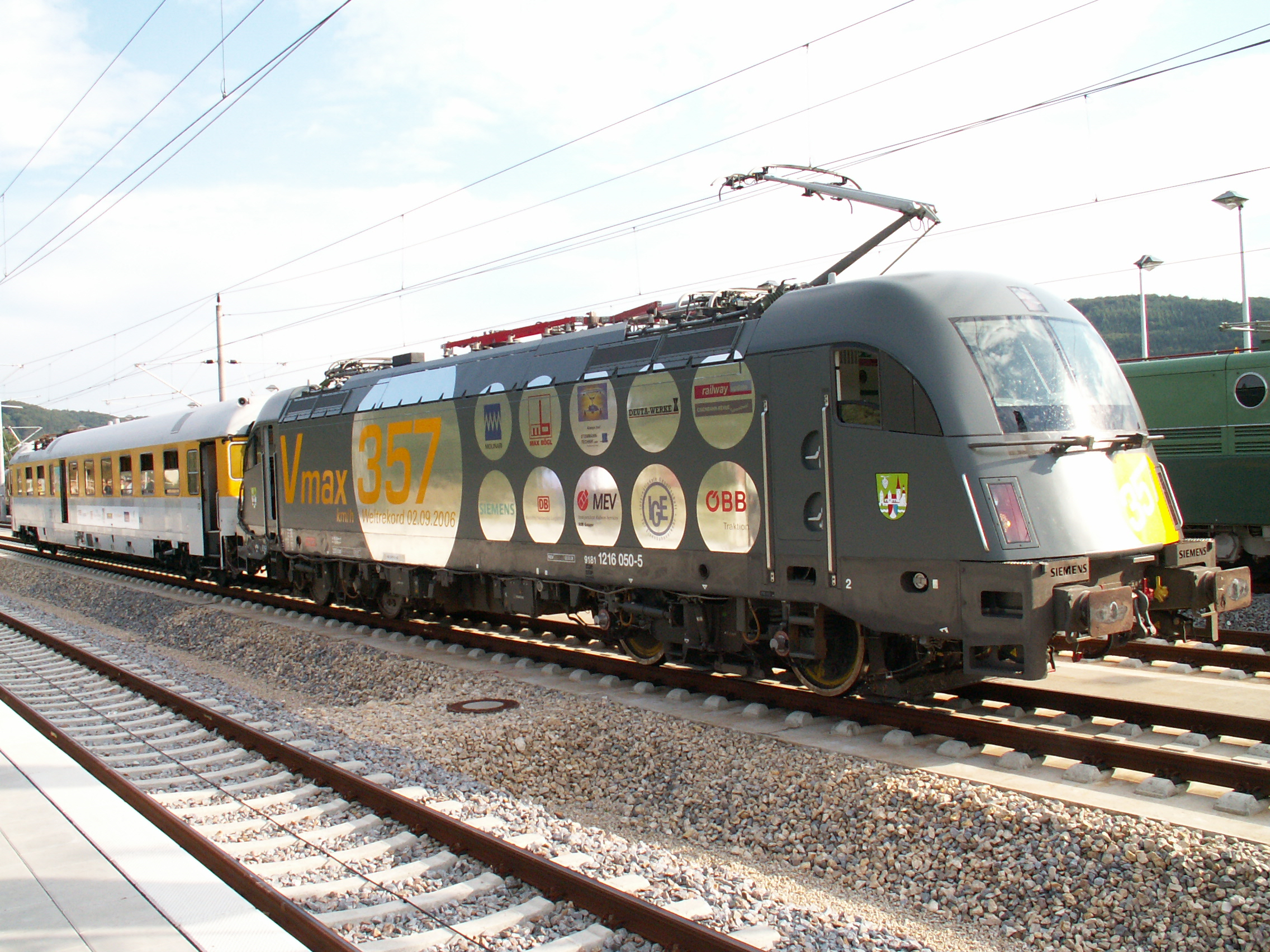 ÖBB's 1216 050-5 - the world's fastest locomotive at the station of Kinding, Germany, after a 357 km/h world record run on the Nuremberg-Ingolstadt high speed track